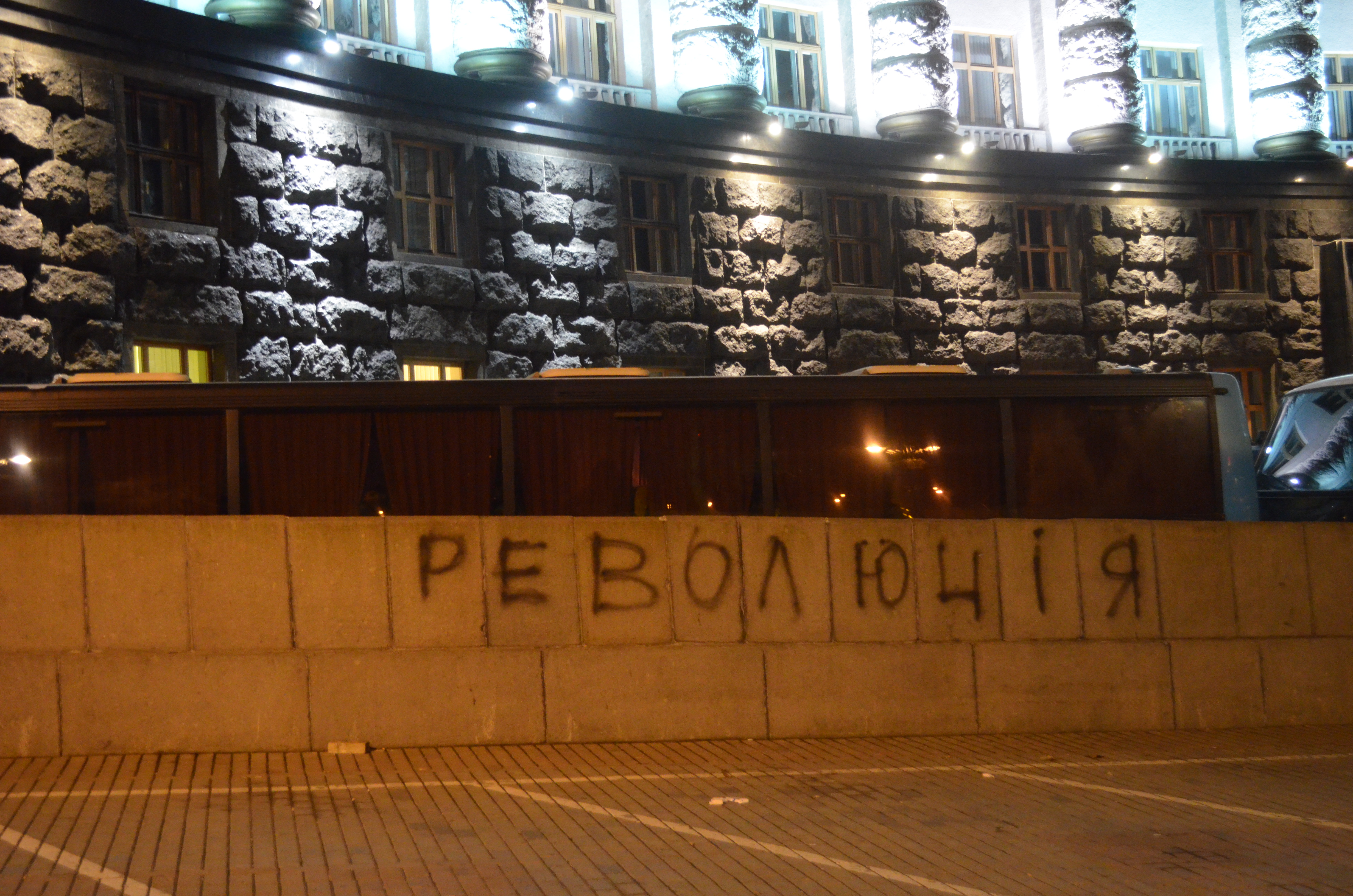 Euromaidan in Kyiv